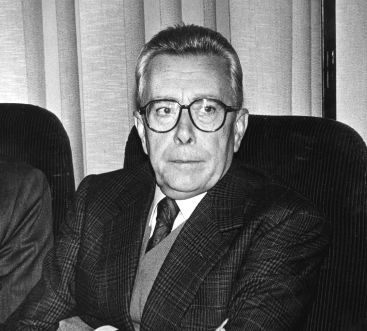 Arnaldo Forlani.